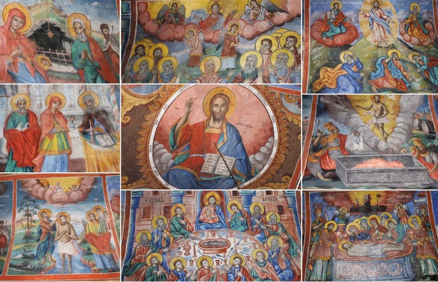 St Petka Church Bogyovtsi Frescos